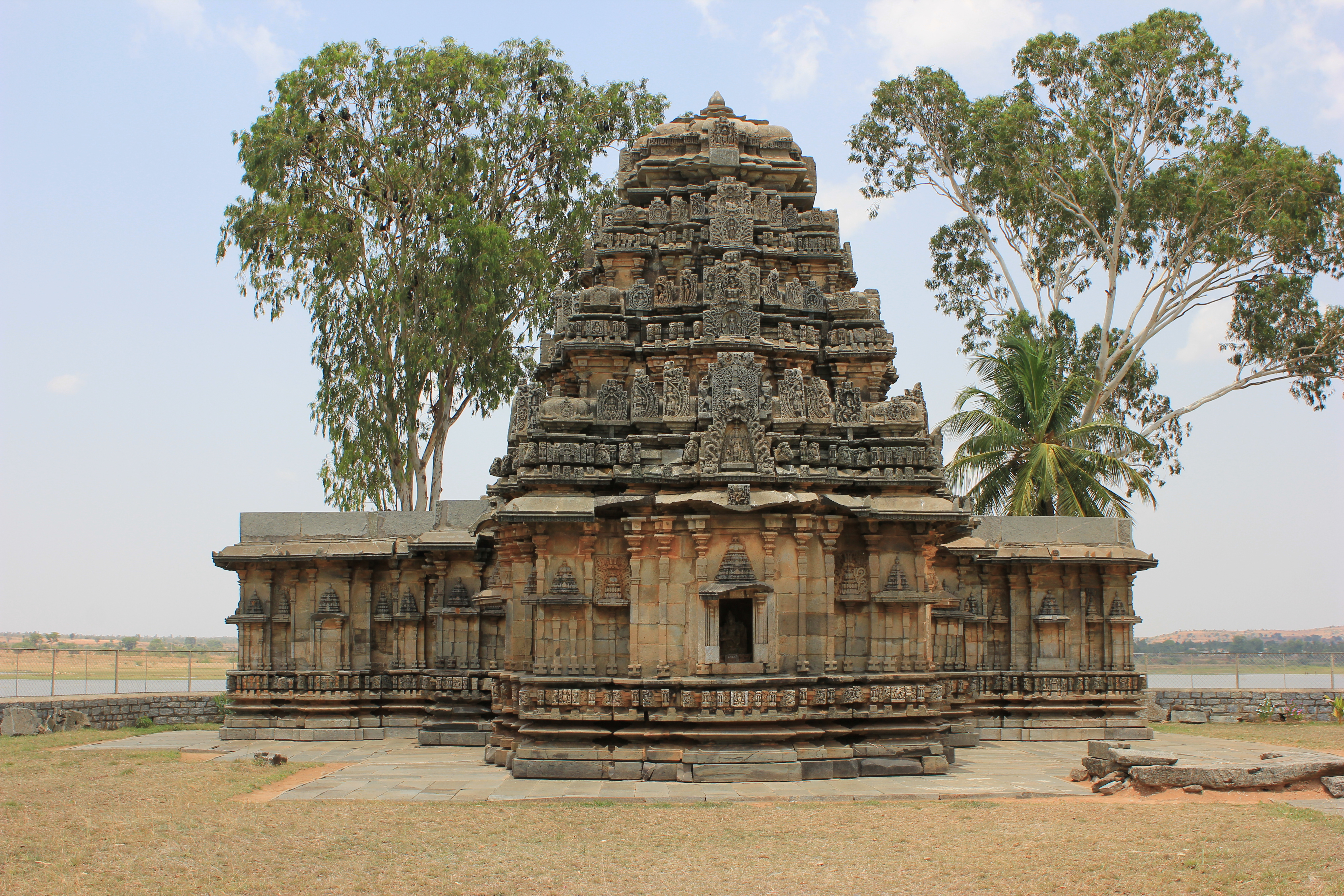 This photograph was taken by me at the Bhimeshvara temple (also spelt Bhimesvara) at Nilagunda (or Neelagunda) in the Davangere district of Karnataka state, India, The temple was constructed during the last quarter of the 11th century A.D. during the rule King Vikramaditya VI of the Western (Kalyani) Chalukya dynasty